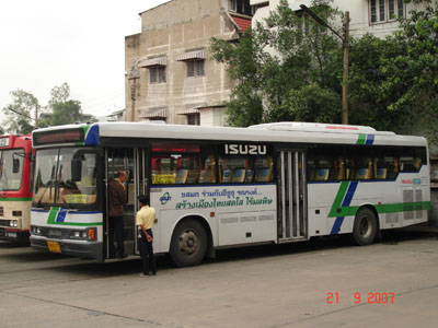 ISUZU LV486R CNG City Bus in Bangkok. Service in bus route no. 129 # Bangkhean - Samrong